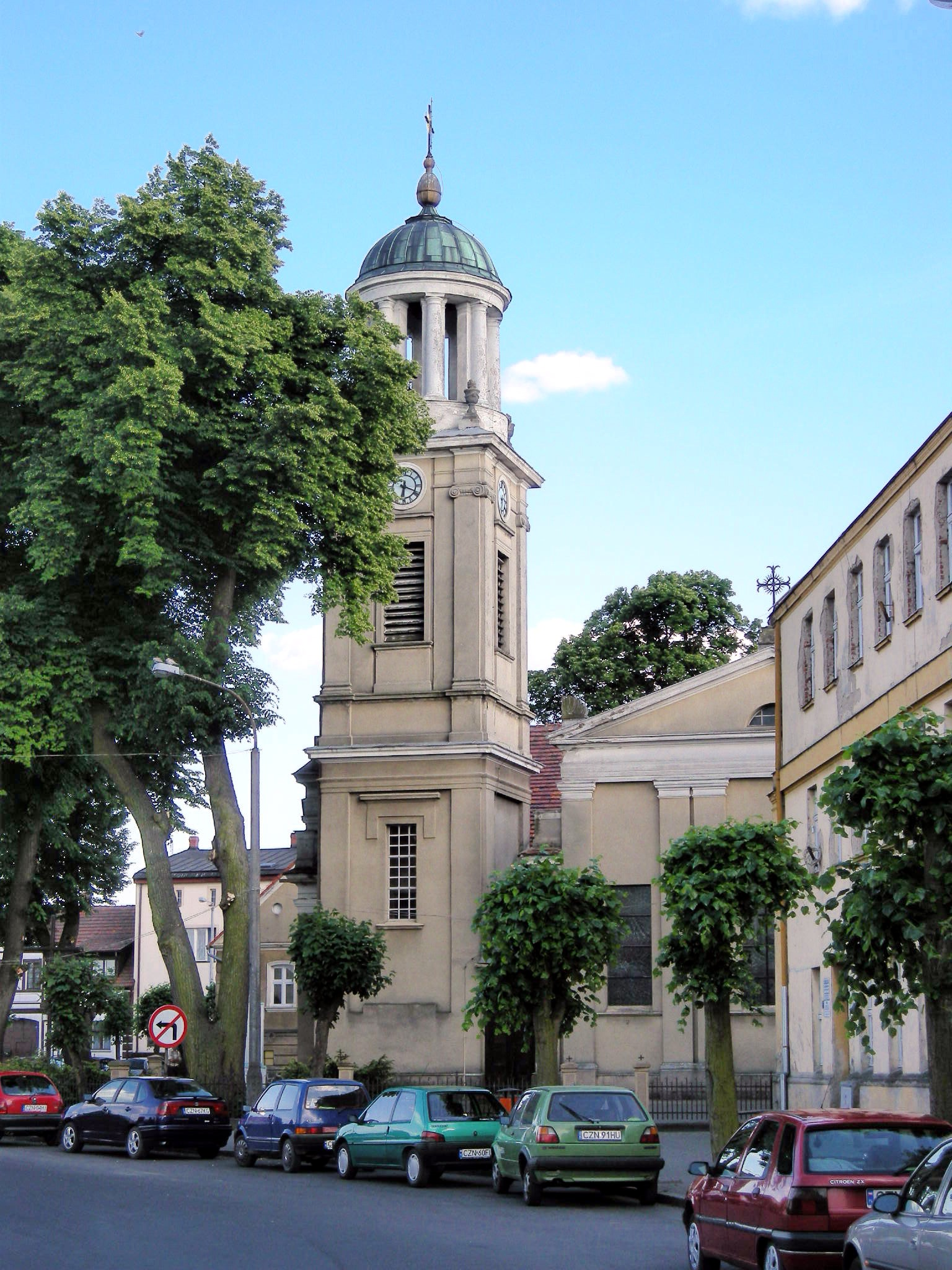 The church in Janowiec Wielkopolski, Poland.